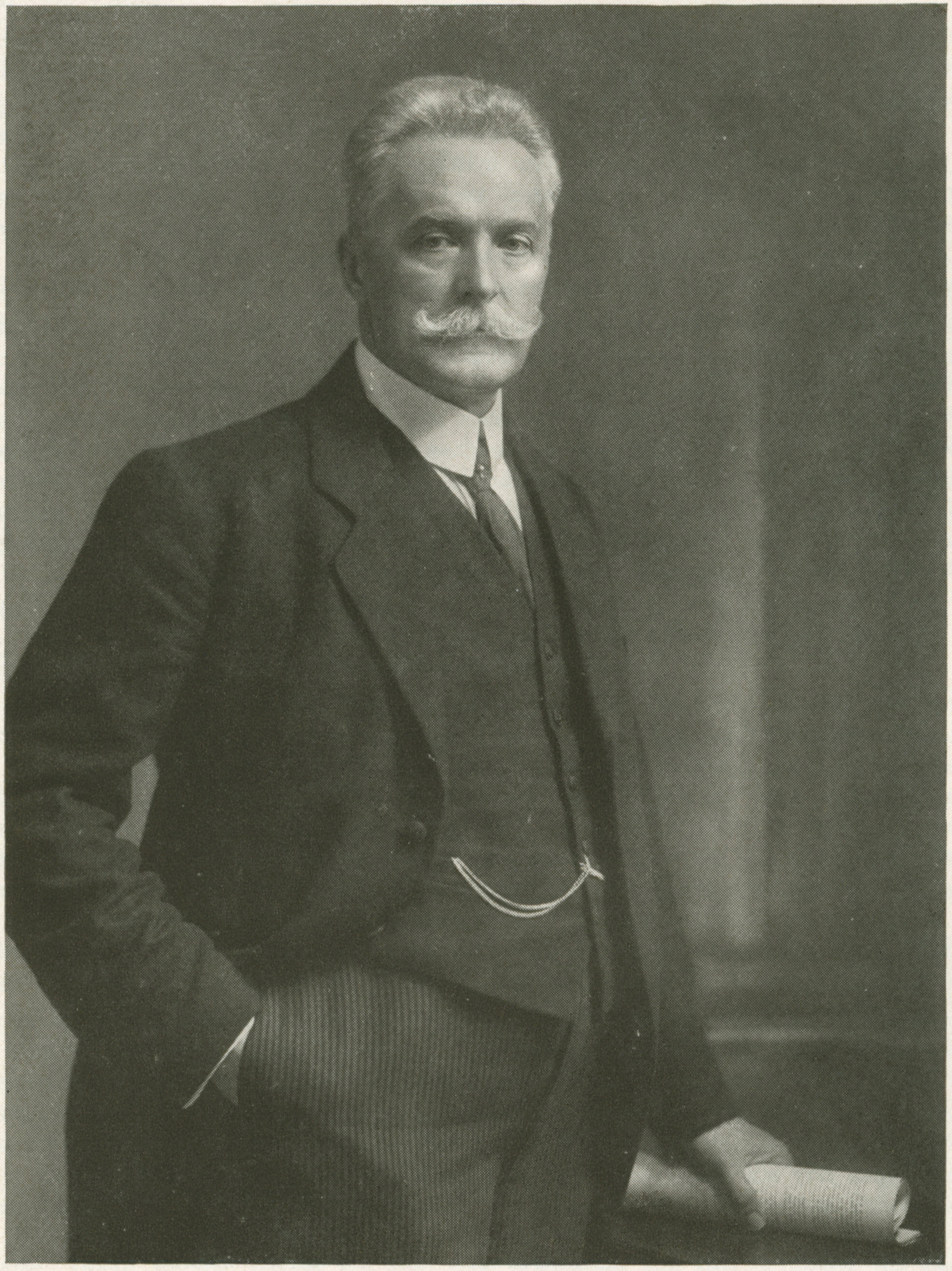 Portrait of Heinrich Herkner (1863–1932)